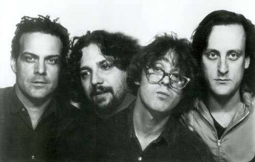 A picture of the band red red meat